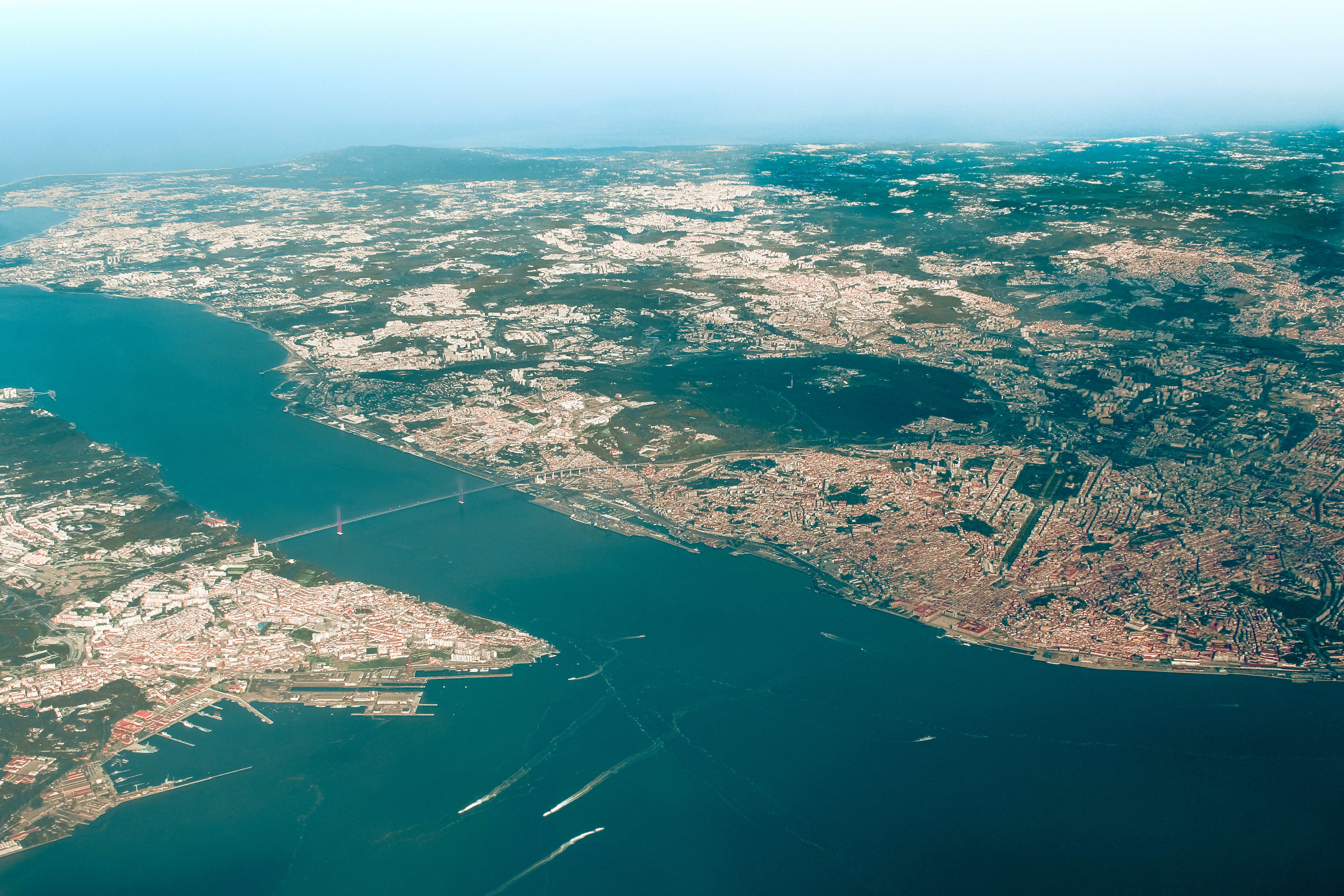 Aerial view of Lisbon, with River Tagus.and Ponte 25 de Abril.